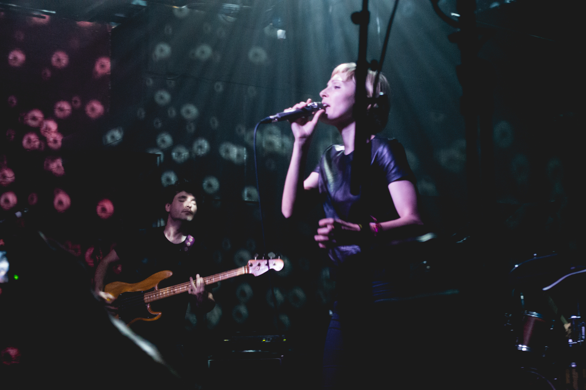 Poliça